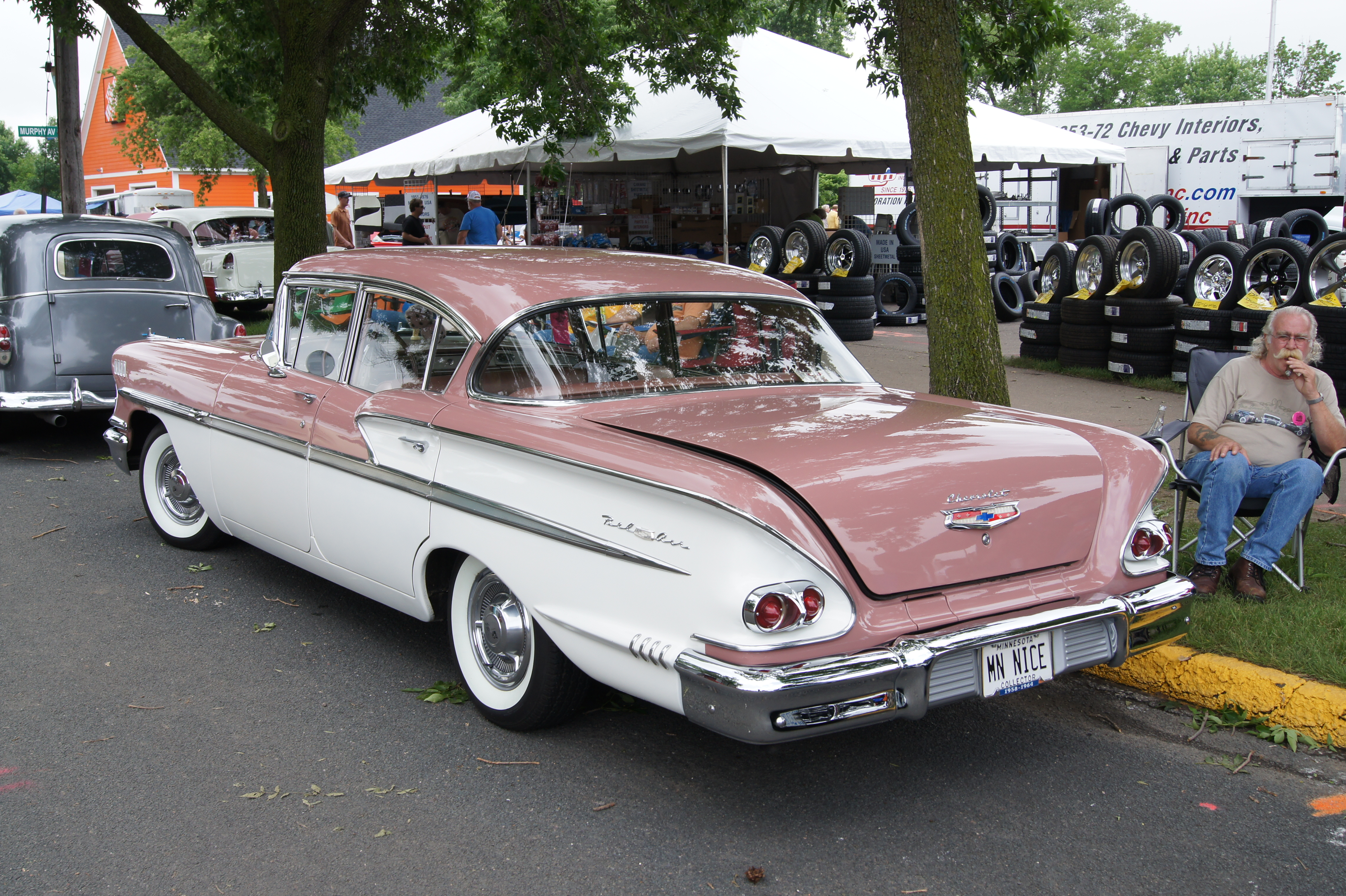 MSRA “BACK TO THE 50′s” 40th ANNIVERSARY June 21-23, 2013 State Fairgrounds St. Paul Minnesota More Car Pictures